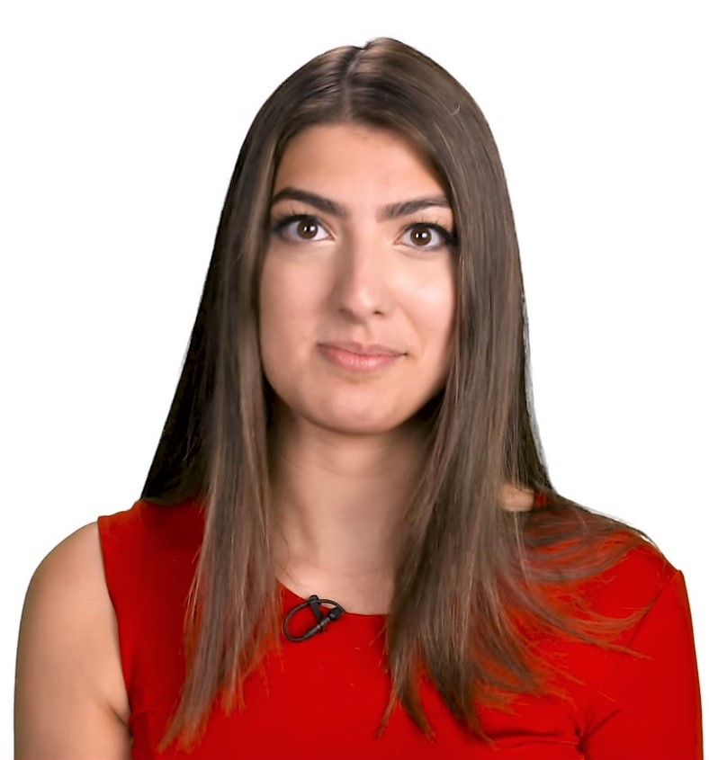 What Do You Like Most/Least About Being A Creator? | Vidcon MTV News Rachel Levin, Kingsley, Merrell Twins, Luke Korns and Mikey Murphy tell us about the highs and lows of being a creator at Vidcon Anaheim. Official